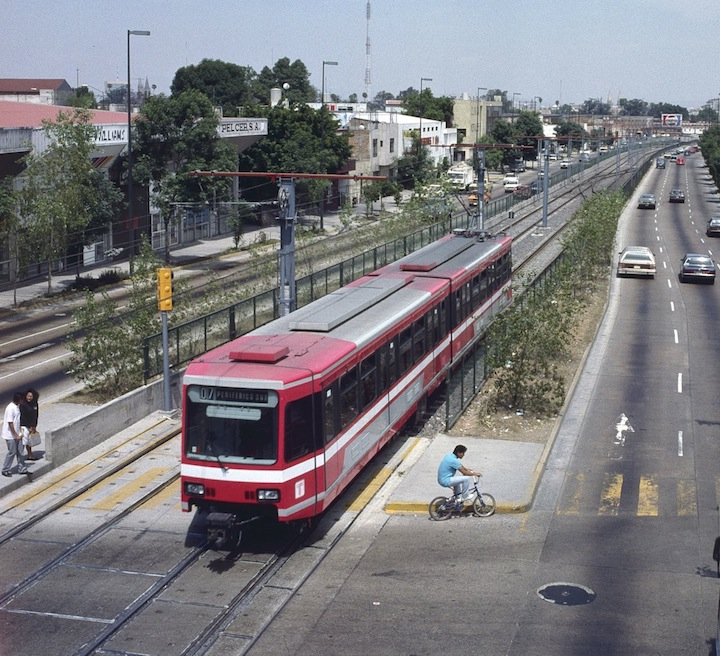 A Concarril-built light rail car on the Guadalajara light rail system crossing a street immediately north of Santa Filomena station, northbound on line 1.